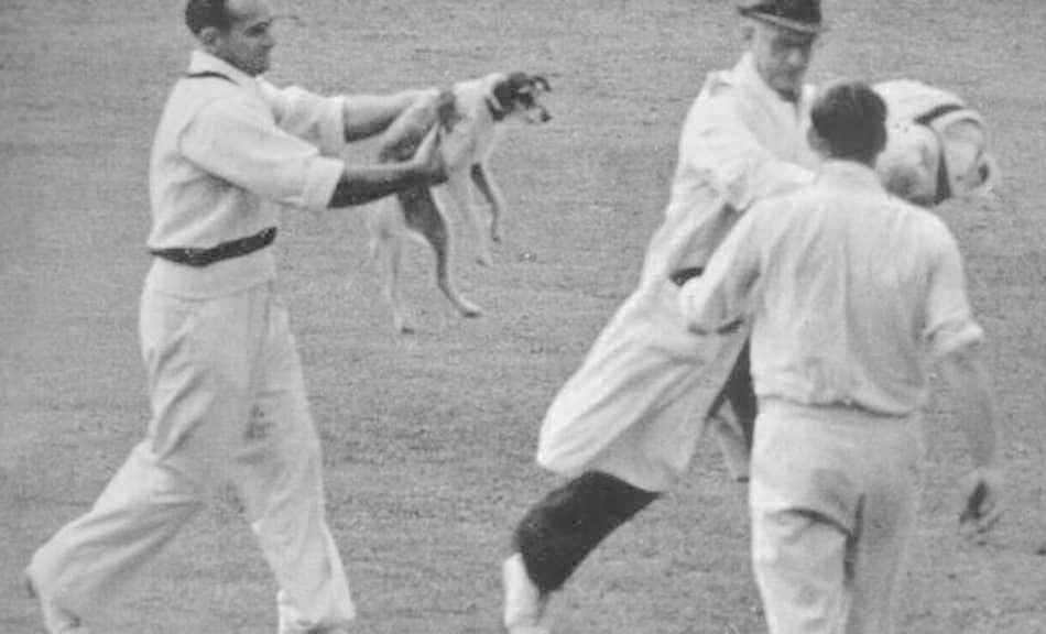 Sid Barnes chasing Alec Skelding with the dog at The Oval. Photo Courtesy: Sydney Morning Herald